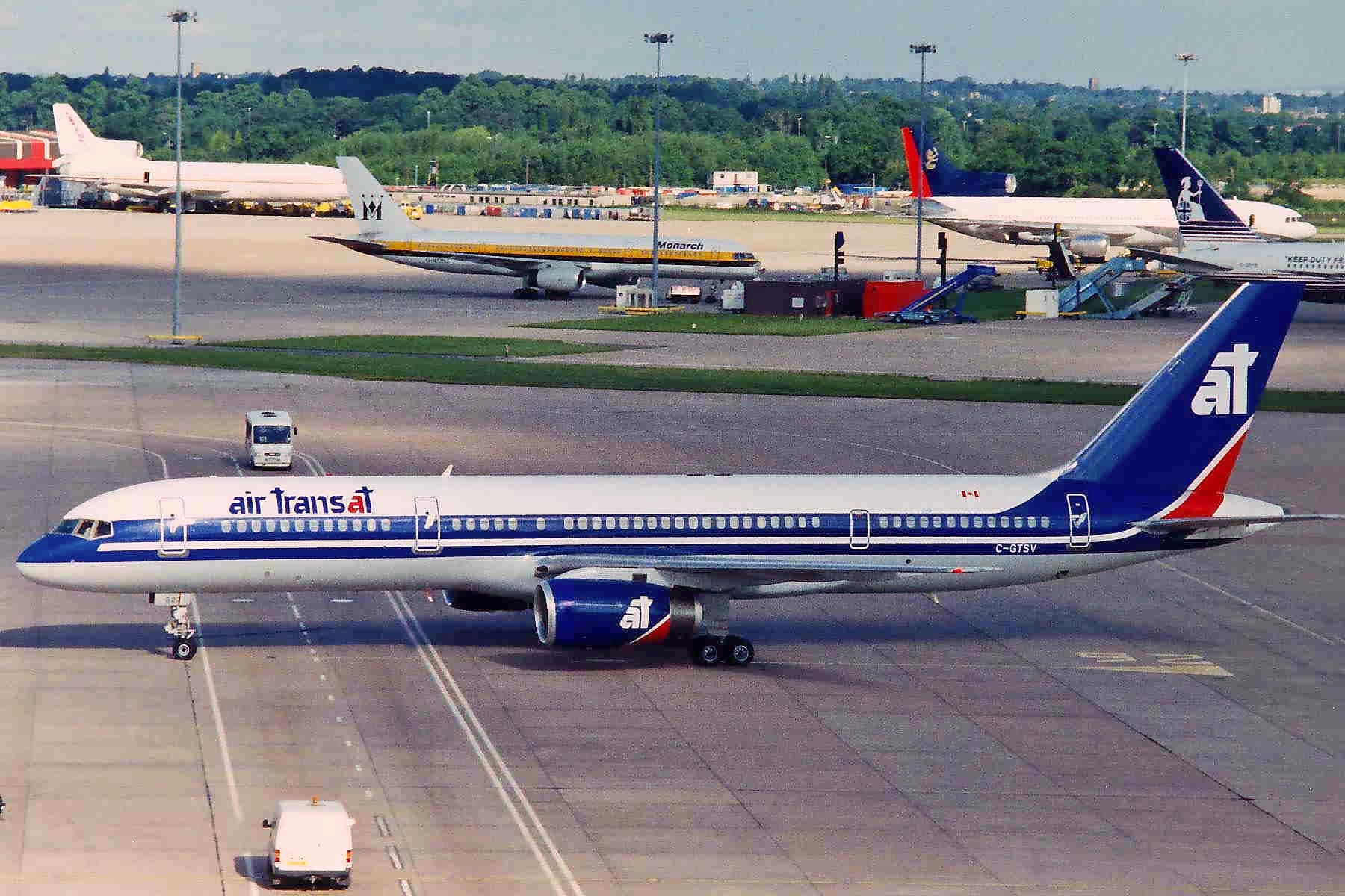 A picture of an airplane (name of it is on the file name).